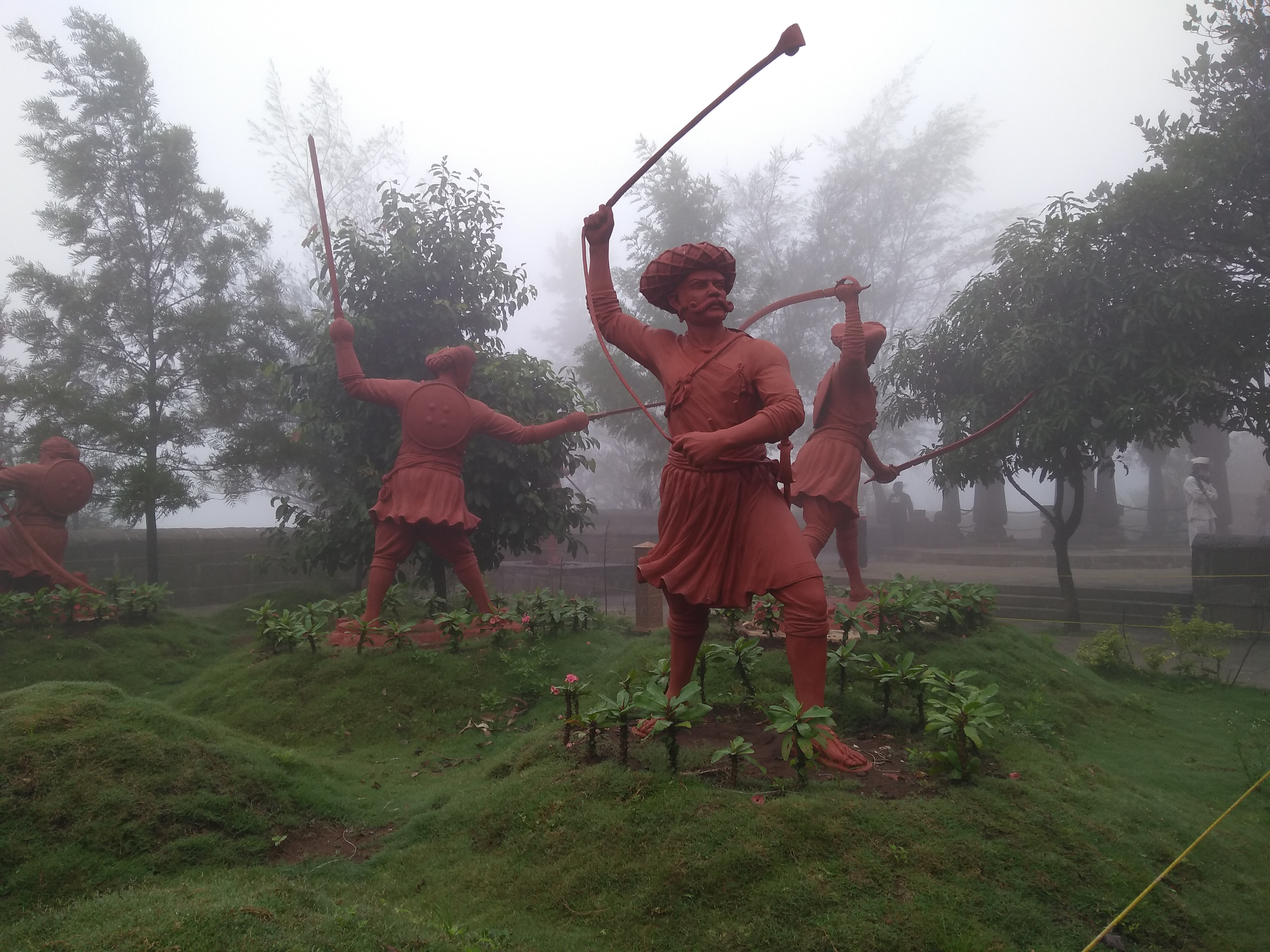 Tanaji Malusare Statue at Sinhgad Pune